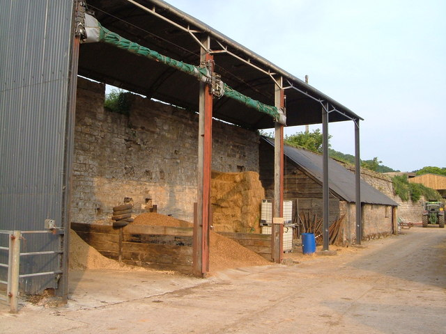 Disused canal aqueduct at Wrantage, England